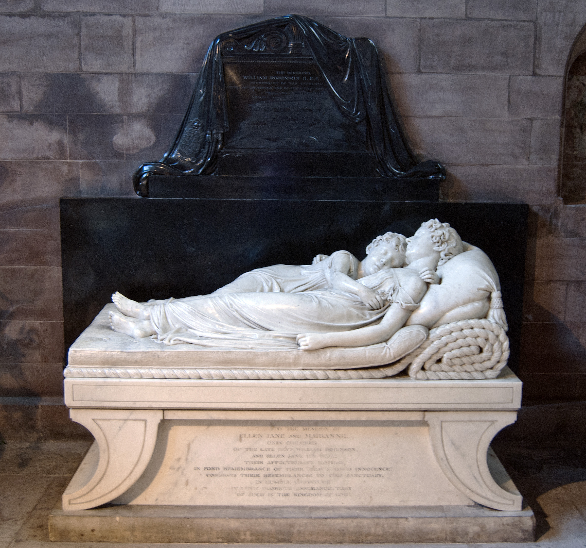 Sculpture of 'The Sleeping Children' by Sir Francis Chantrey located in Lichfield Cathedral.